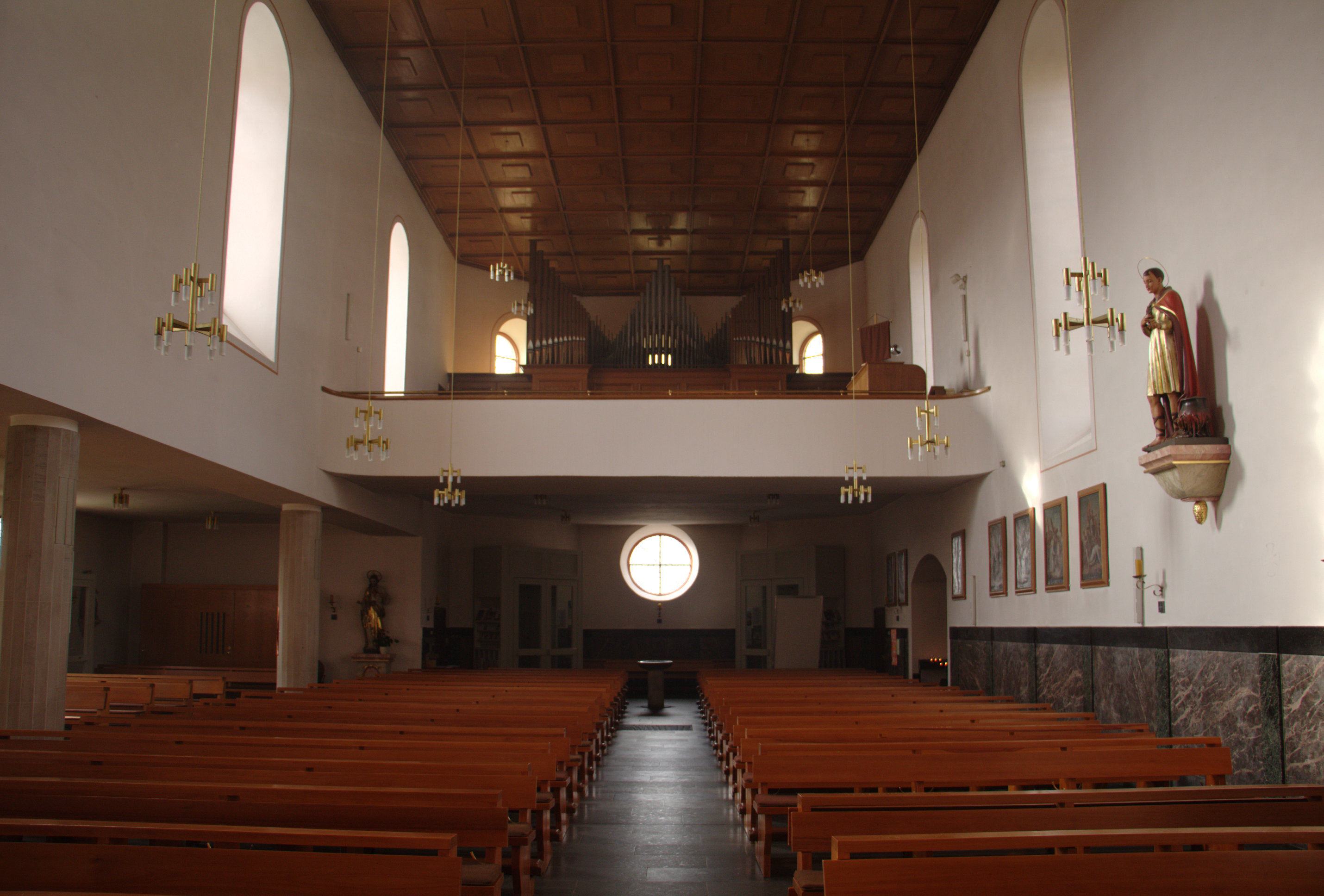 Catholic church - St. Vitus (Organ) in Bad Salzschlirf / Hesse / Germany